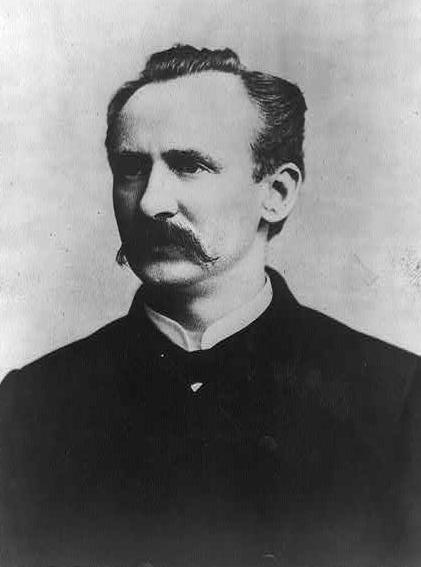 Rep. Richard William Guenther, 1845-1913, bust portrait, facing left